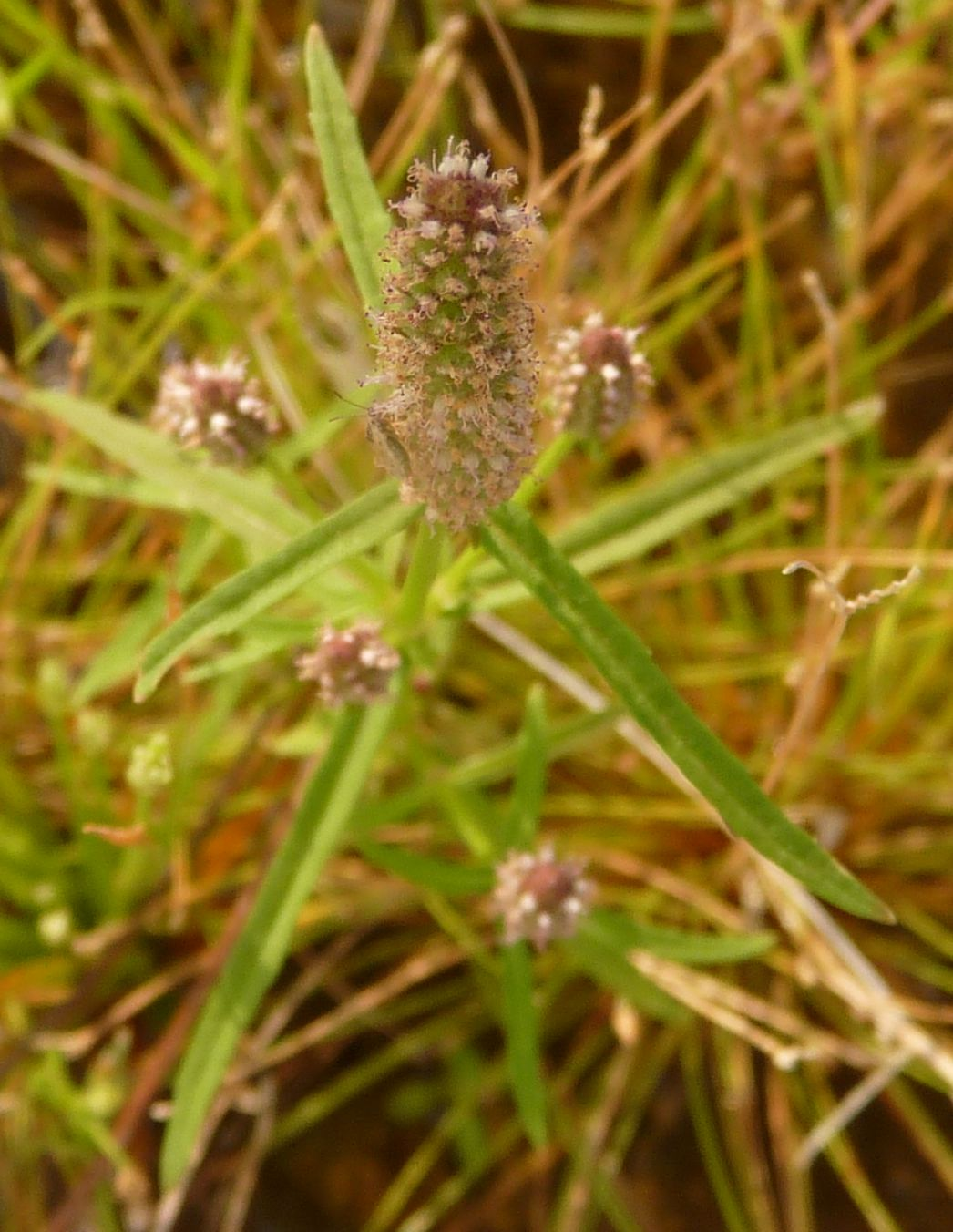 Pogostemon stellatus flowers